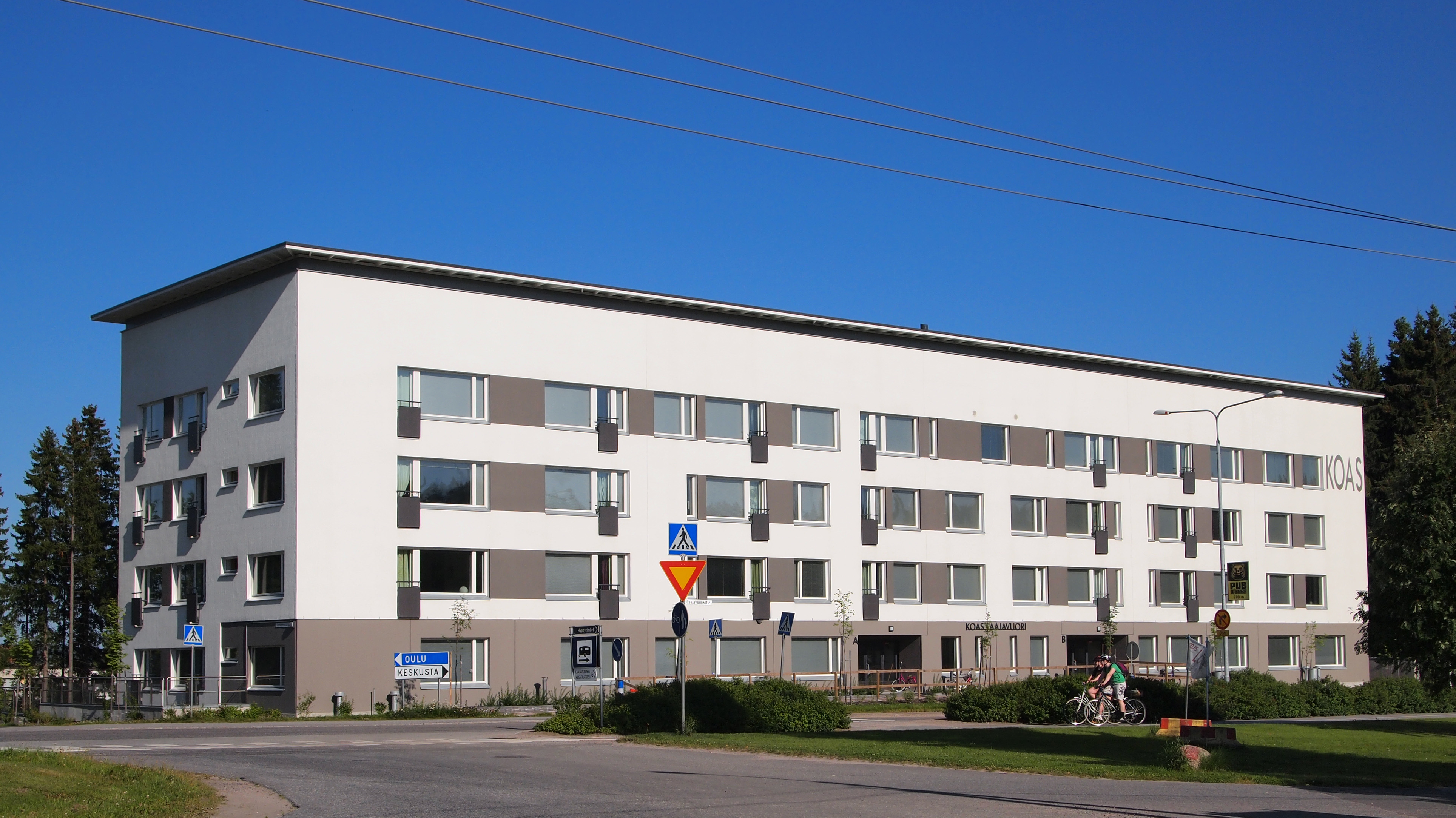 Building KOAS (Central Finland Student Housing Foundation) Laajavuori in Jyväskylä. This photograph was taken with an Olympus E-PL1